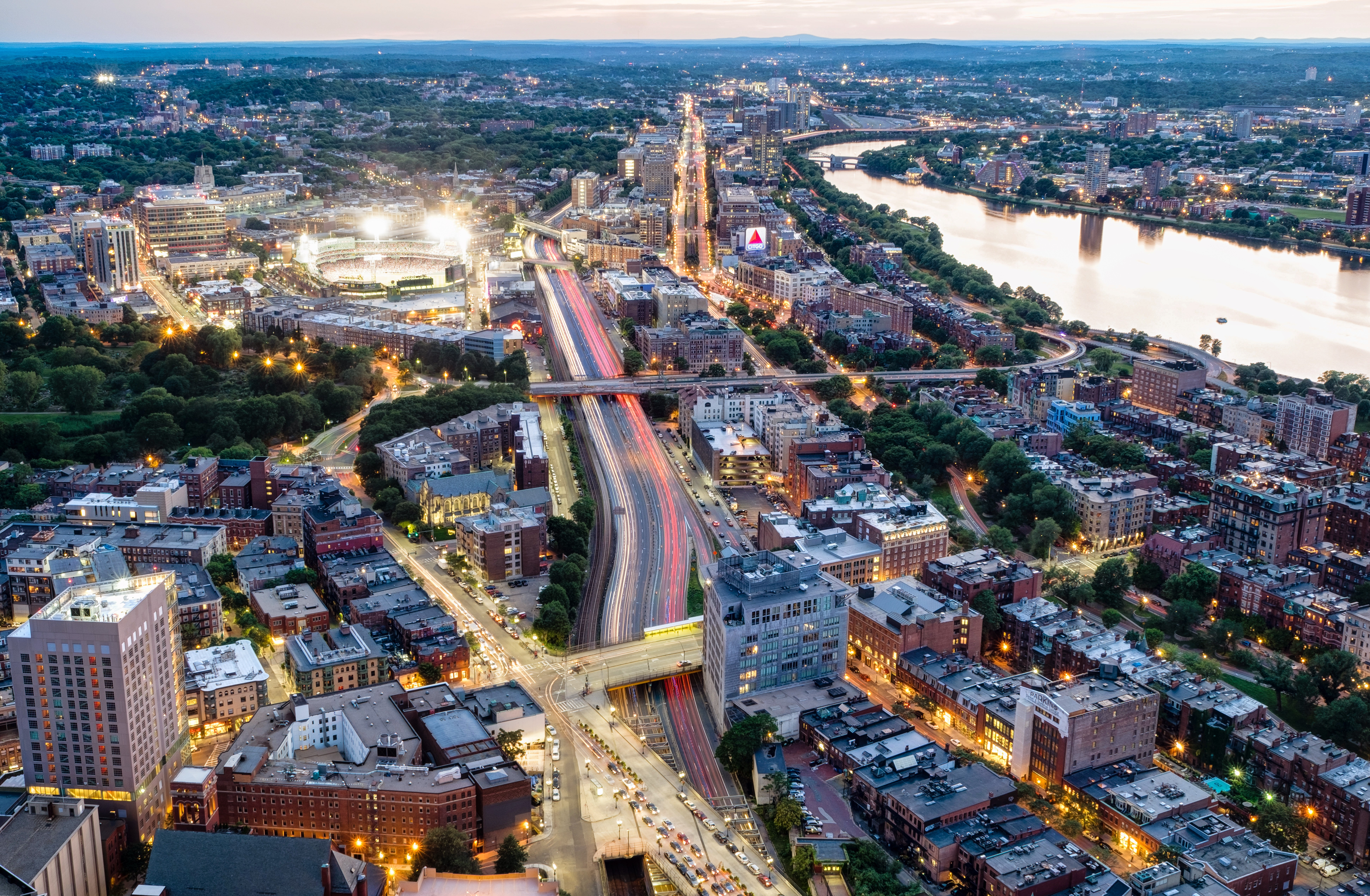 View west from the Prudential Tower in July 2015. Fenway Park and the Mass Pike are prominent; Mount Wachusett is visible on the horizon.